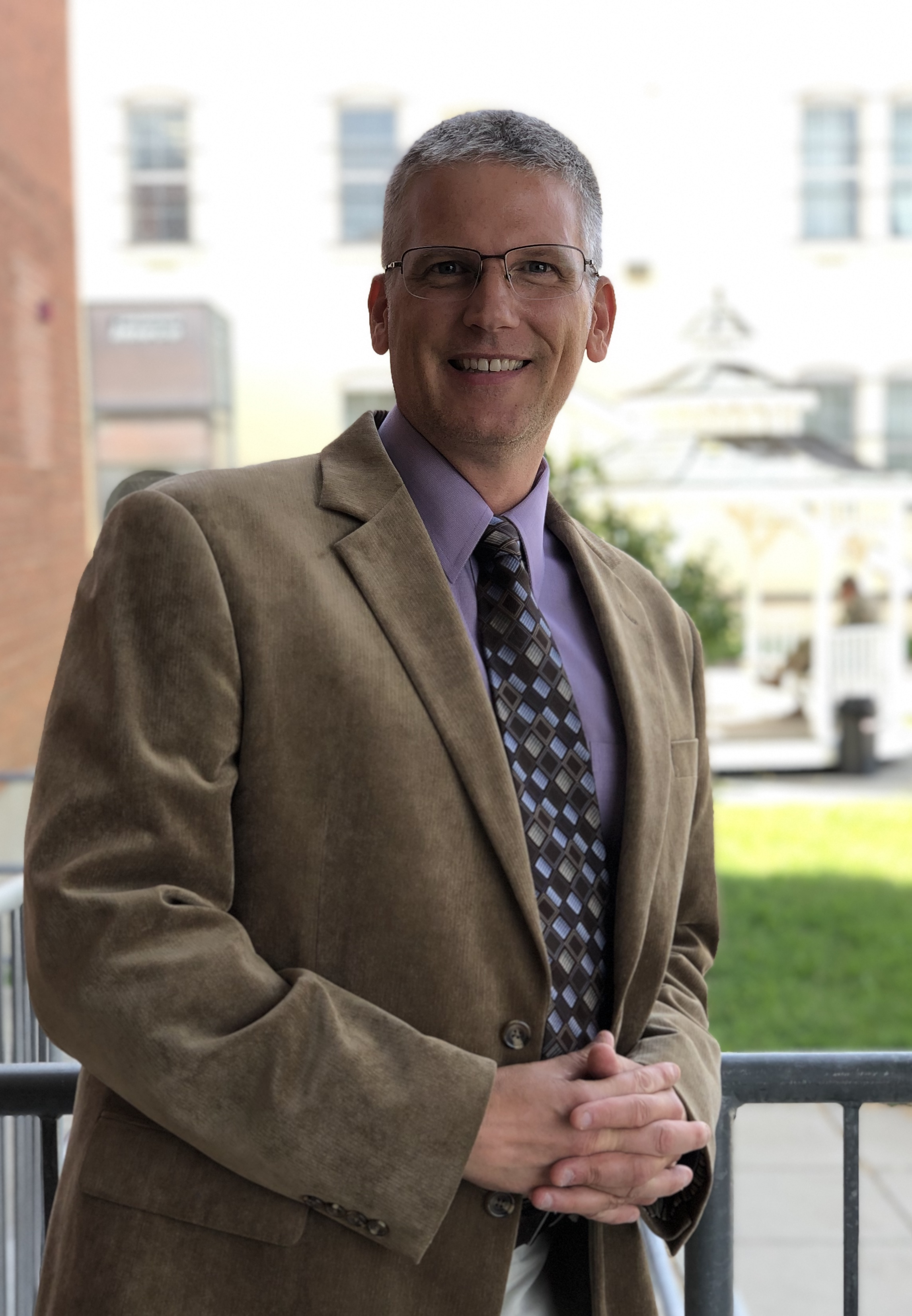 Robert Arp, Ph.D., at Webster University - Kansas City in September, 2019